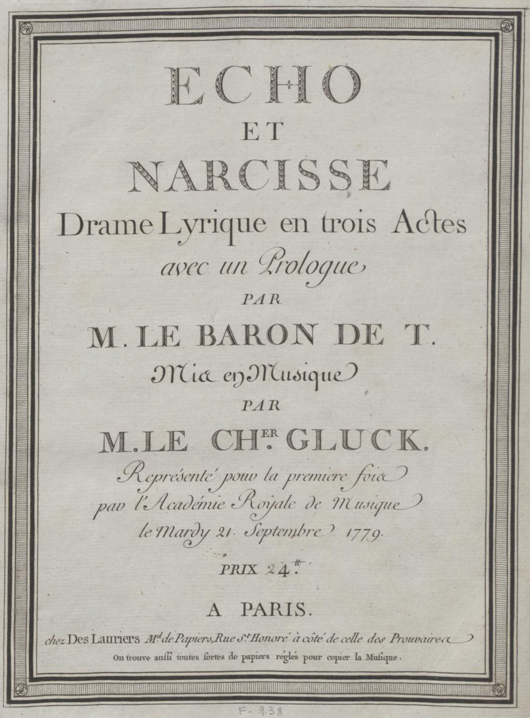 This is the cover page of the source work, which is a digitized 1779 score of Gluck's opera Echo et Narcisse. The image has been cropped and rotated.